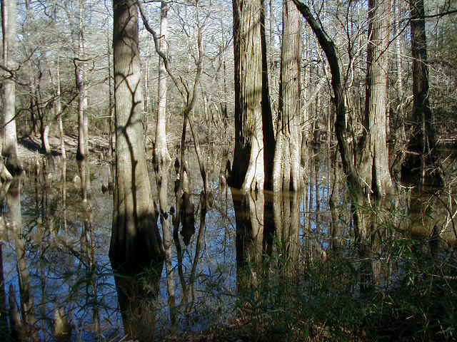 Big Thicket National Preserve. A freshwater swamp forest in Texas. Source National Park Service